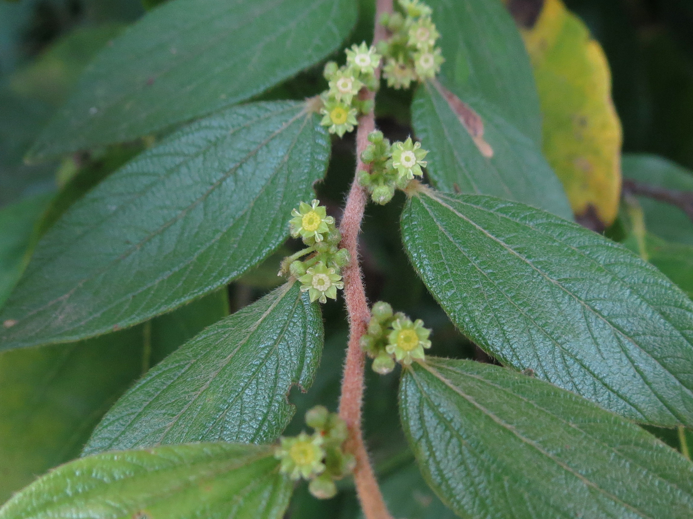 Ziziphus oenoplia seen in valley school bangalore